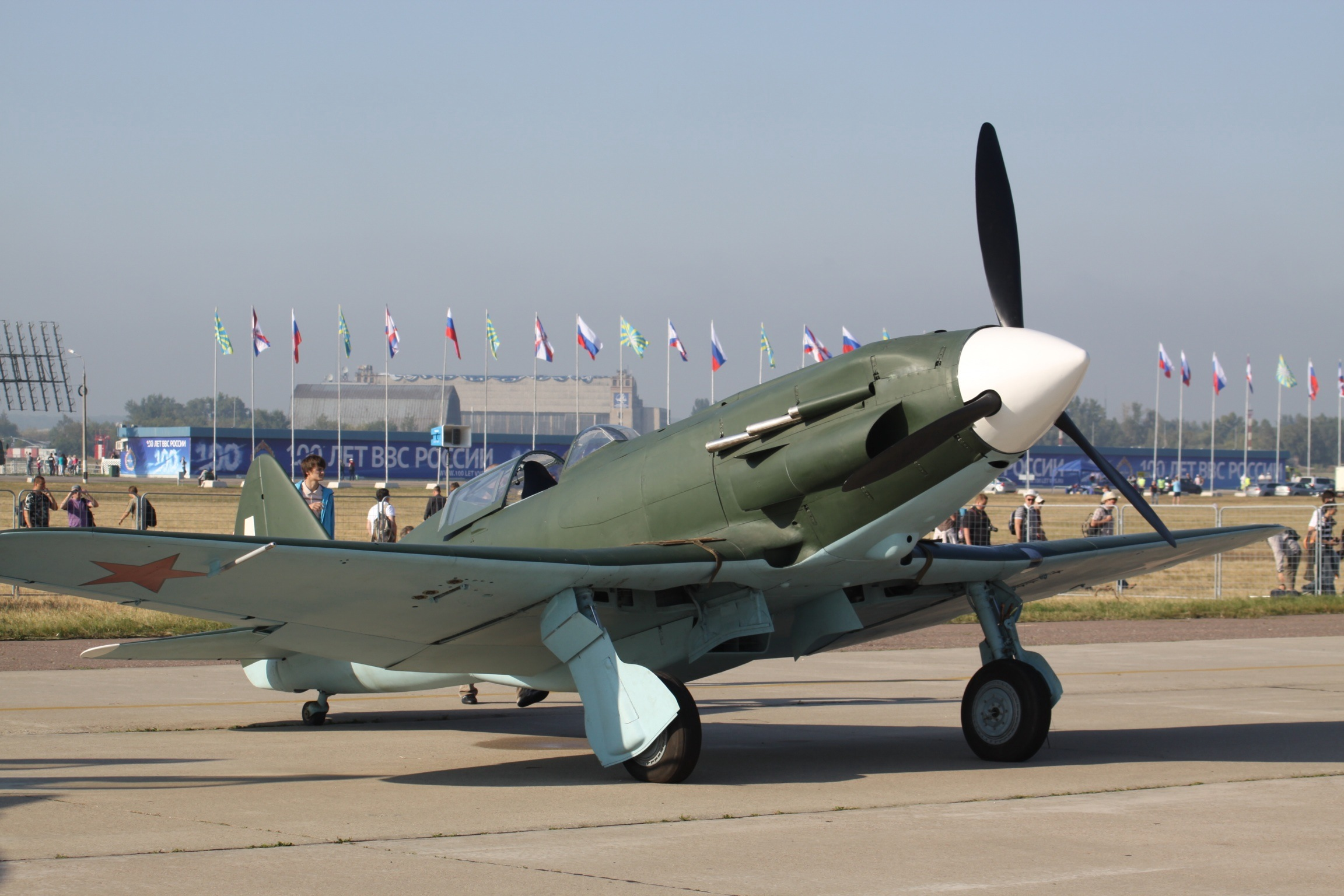 At Moscow Zhukovsky